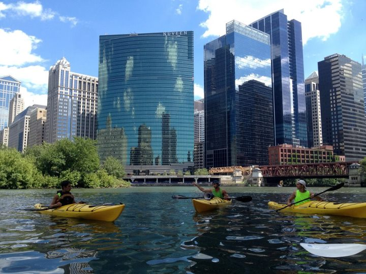 Urban Kayakers taking a break at Wolf Point, with 333 W. Wacker, the Lake Street Bride, and the south skyline of Chicago in the background.